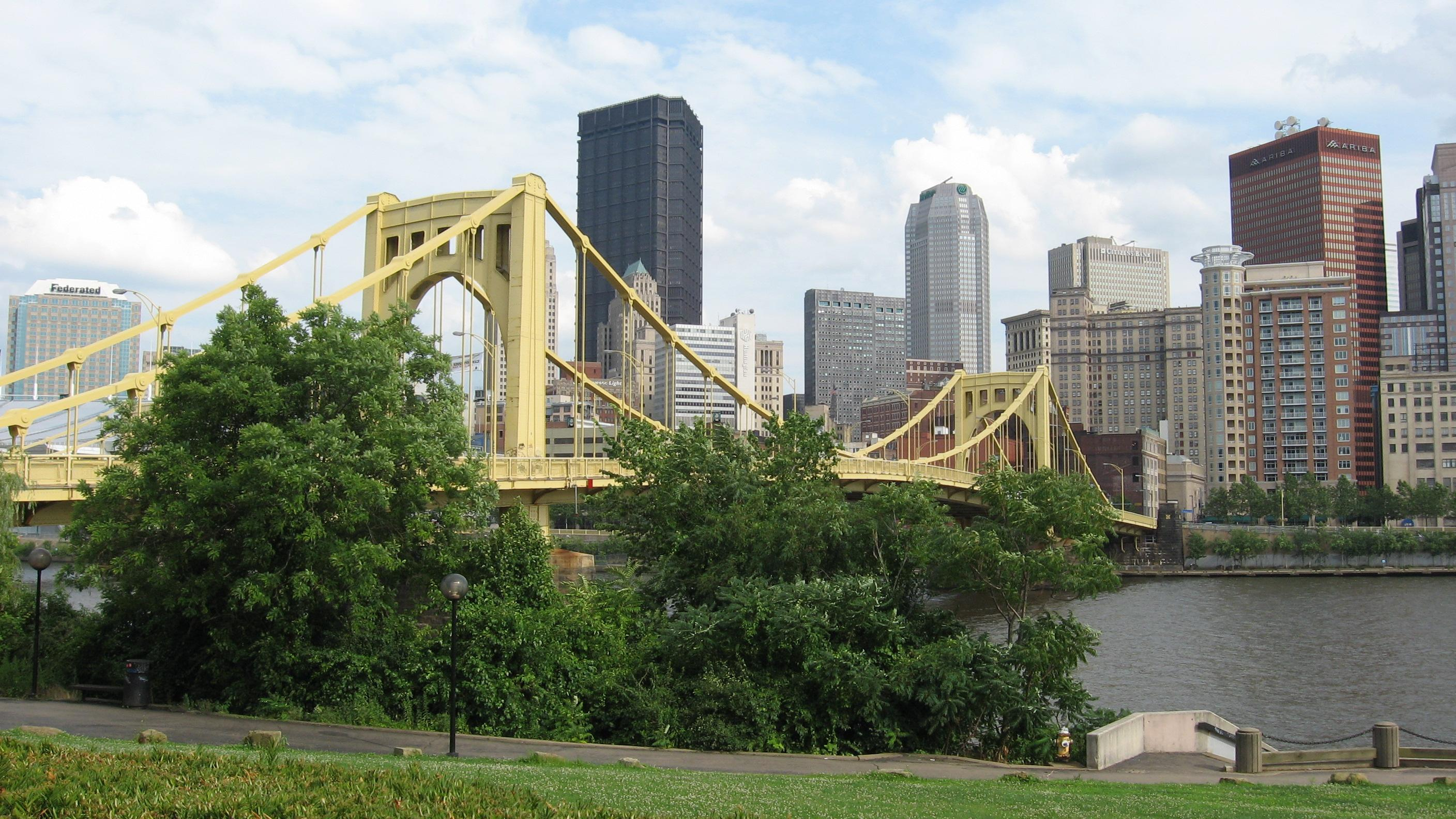 The Andy Warhol Bridge (7th Street) Bridge in Pittsburgh.40°26′46.3″N 80°0′5″W / 40.446194°N 80.00139°W